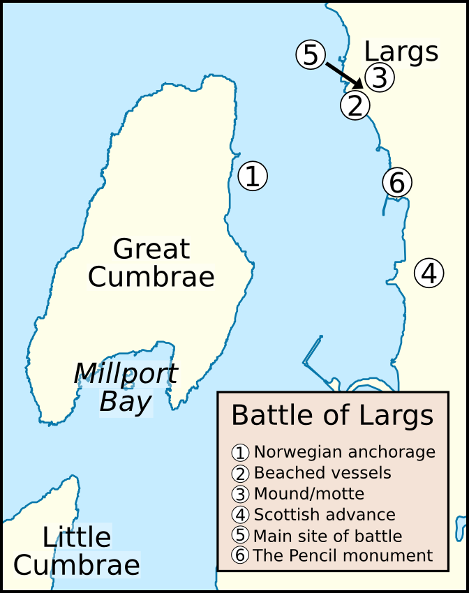 Map of the Battle of Largs, fought in 1263 between the Norwegian and Scottish realms. I based this map off the one published in Alexander, Derek; Neighbour, Tim; Oram, Richard D. (2000), "Glorious Victory? The Battle of Largs, 2 October 1263", History Scotland, 2, pp. 17–22.